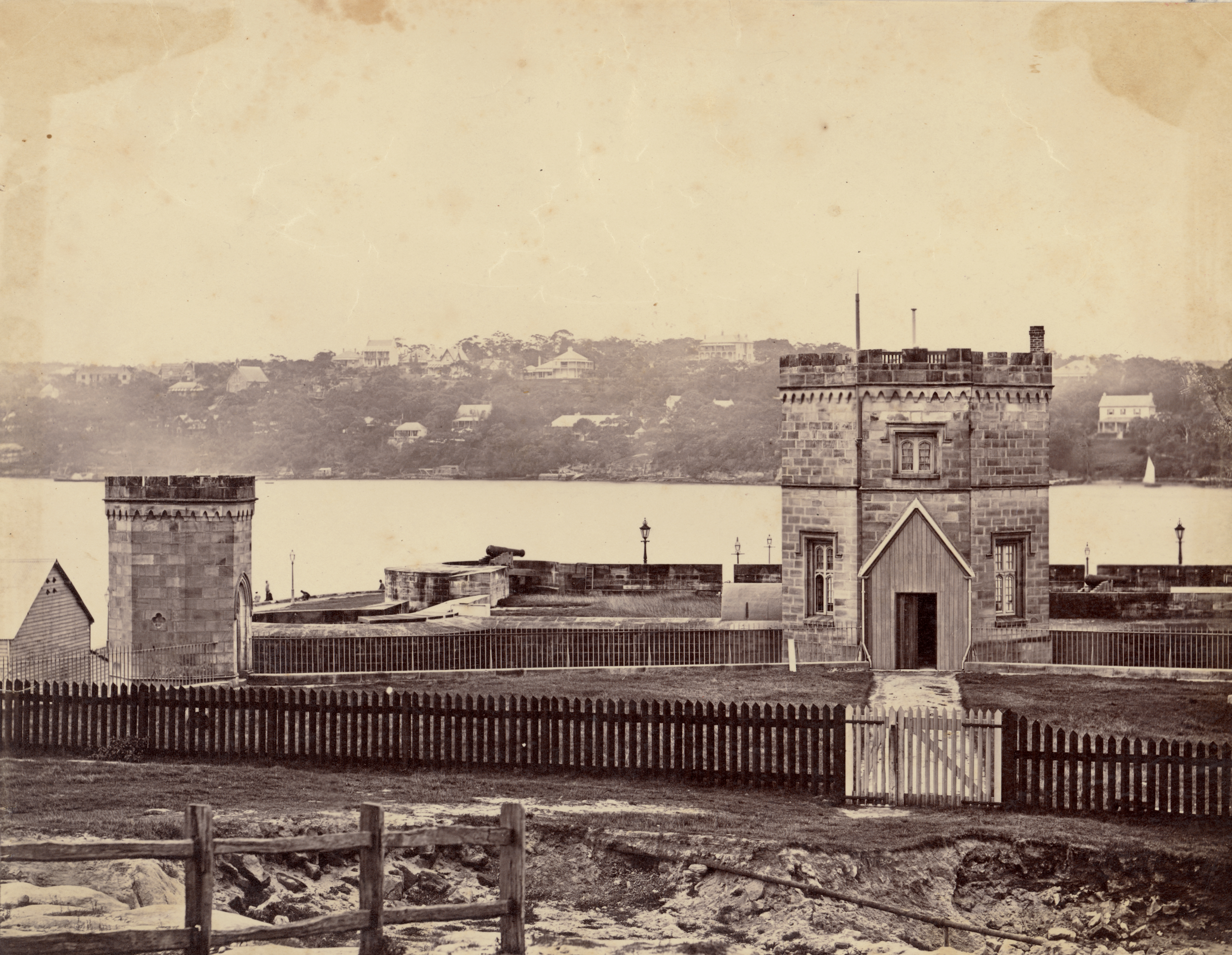 Fort Macquarie and the North Shore, Sydney, ca. 1885, (attrib.) Joseph Bischoff, from vintage albumen print, State Library of New South Wales, SPF / 121